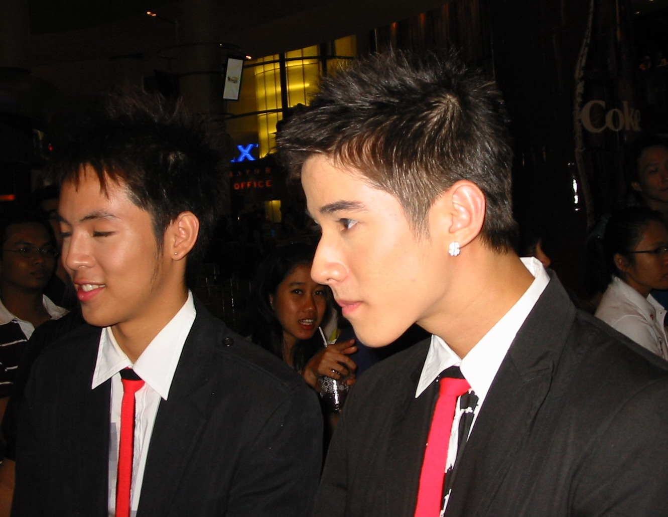 Mario Maurer and Witwisit Hiranyawongkul at Star Entertainment Awards 2007.jpg